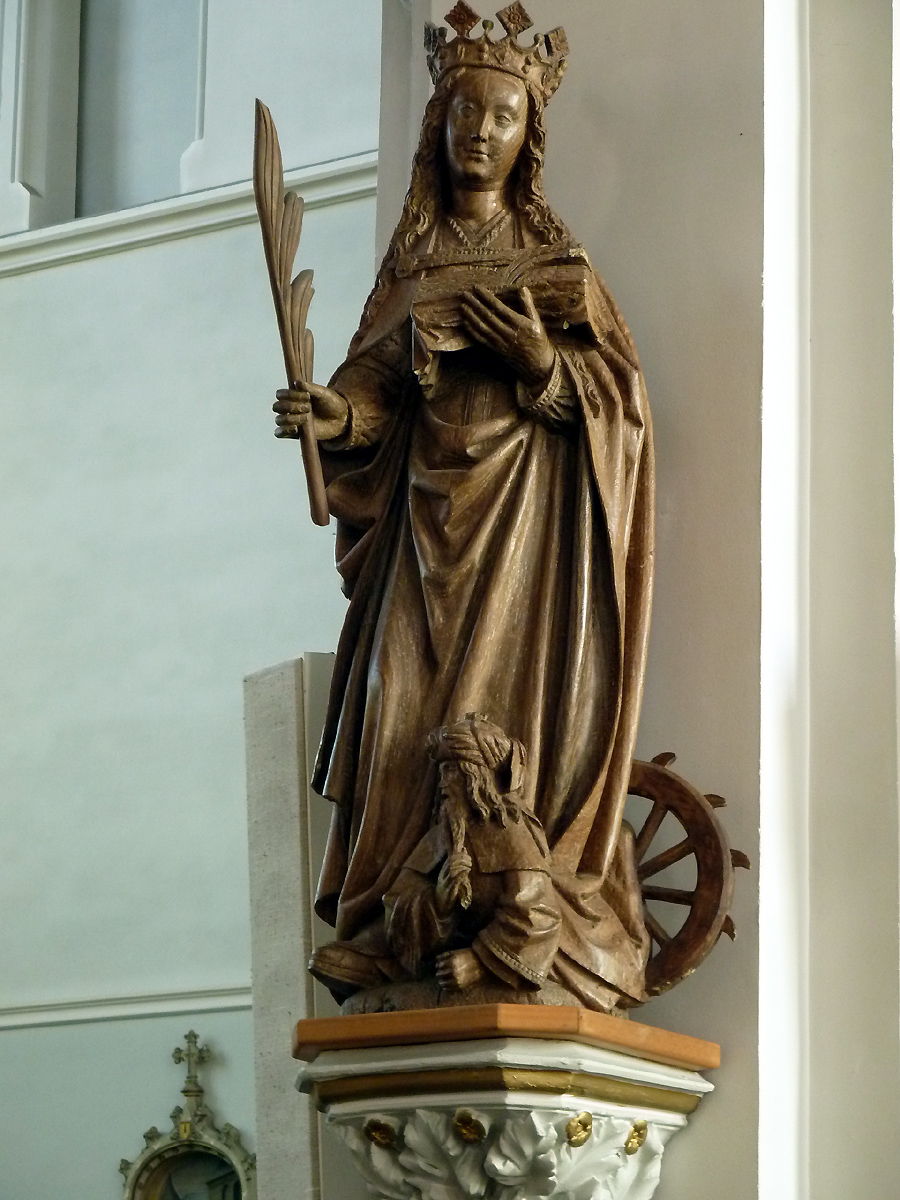 Statue of Saint Catherine in church Neerlinter Nedersaksies: Beeld van de Sinte-Katrien in de Follianuskerk van Neerlinter